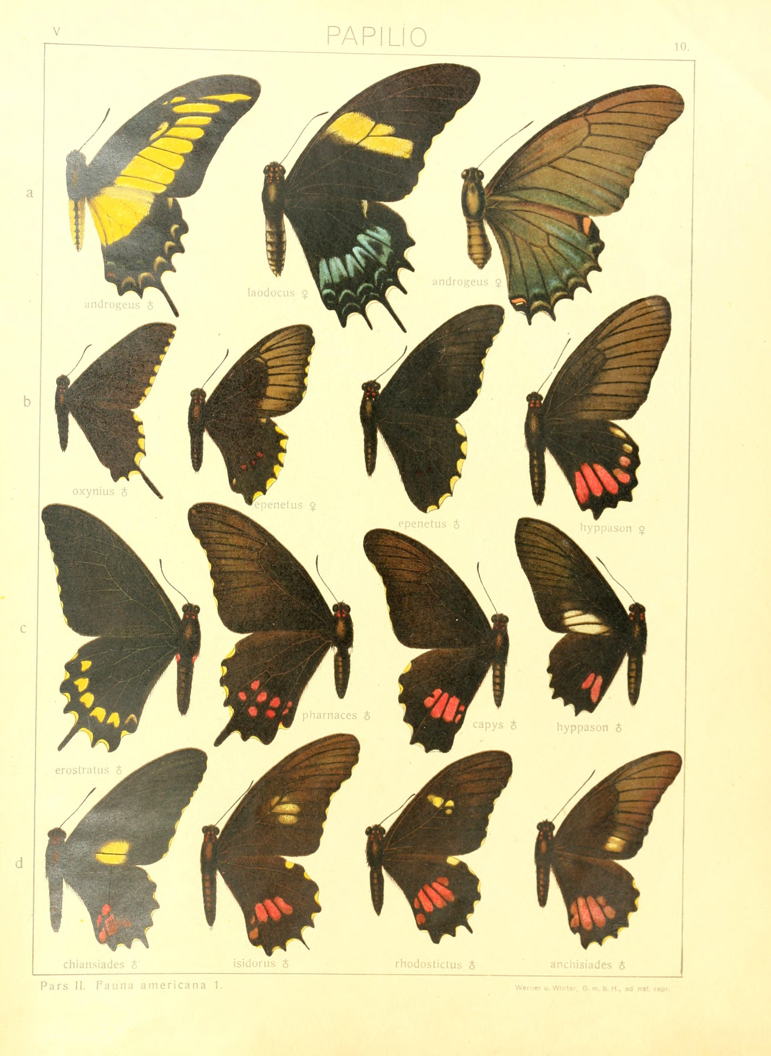 a.1.: Androgeus Swallowtail, male, upperwing; a.2.: Androgeus Swallowtail, female, upperwing; a.3.: Androgeus Swallowtail, androgeus form, female, upperwing b. Papilio oxynius Hbn. [sic] = Papilio oxynius (Geyer, [1827]), ♂, upperwing Papilio epenetus Hew. = Papilio epenetus Hewitson, 1861, ♀, upperwing Papilio epenetus Hew. = Papilio epenetus Hewitson, 1861, upperwing Papilio hyppason Cr. = Papilio hyppason Cramer, [1775], ♀, upperwing